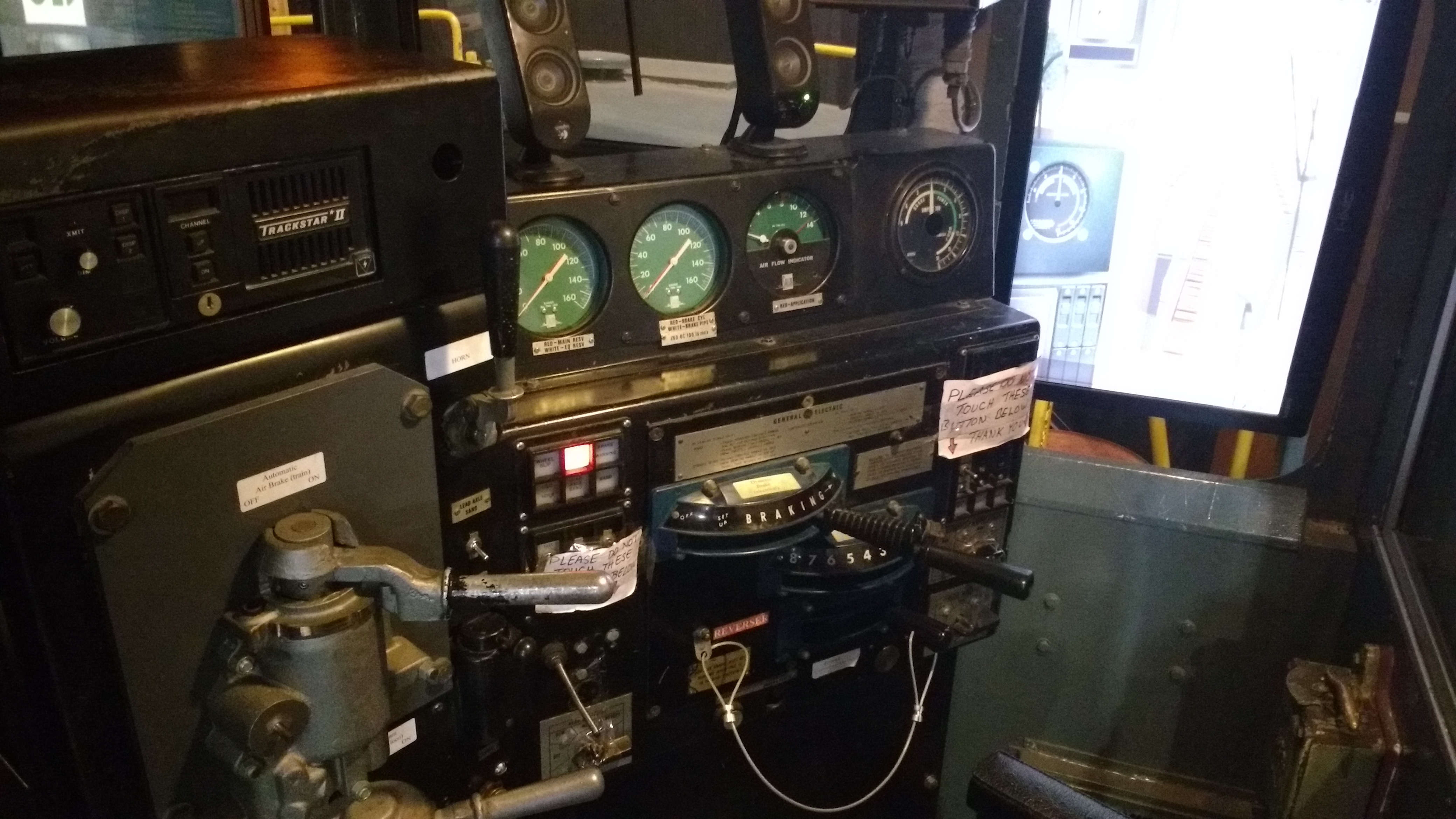 Here is some information on the cab in which the simulator sits: This cab is a General Electric U33C Diesel Cab (fondly called U-Boats by the engineers who drove them). U33C diesels were bought by the Delaware and Hudson (D&H) Railway around 1970 and operated from Montreal southward into the U.S.A. Our cab replicates the cab of D&H #757 which operated from Albany to New York State. It was housed in the Binghamton NY roundhouse when it burnt down, that is why it was scraped - it was burnt to a crisp, and then rebuilt, but it never worked right again. Our actual simulator cab is made of five different locomotives, and the only part that's actually out of 757 is the control stand, the rest is of four different cabs. The diesel cab has been re-built using real interior and exterior parts from scrapped U33C locomotives like the D&H #757. The construction of the cab was mostly complete but required that we design a platform upon which it could be mounted as there were no diesel trucks for it. It sits on a pair of speeder axles, which allows us to jack up the Cab and move it along our tracks when necessary. As to the train within the simulation, it is a SD-40.